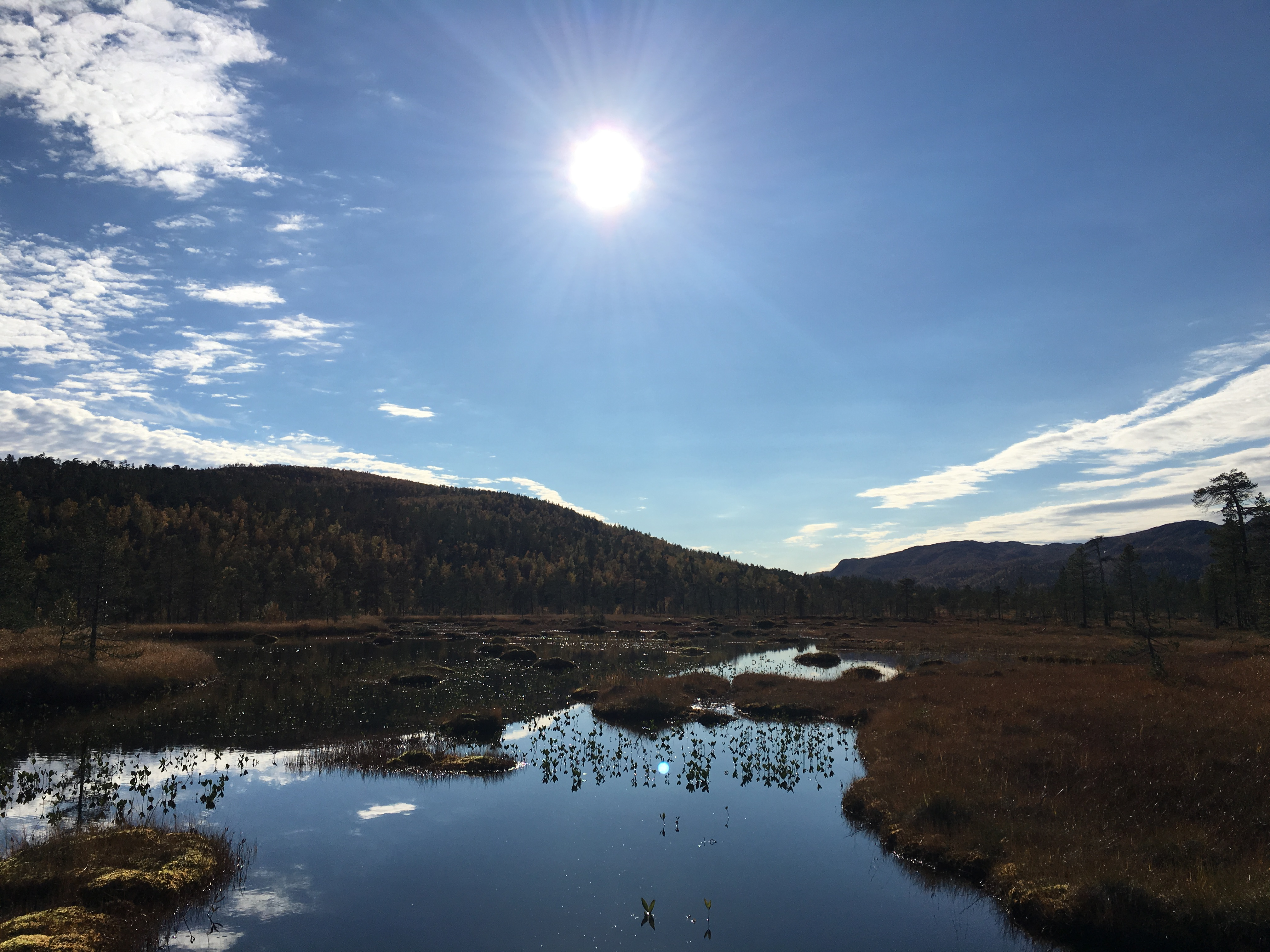 Ånderdalen Nasjonalpark, Senja, Norway